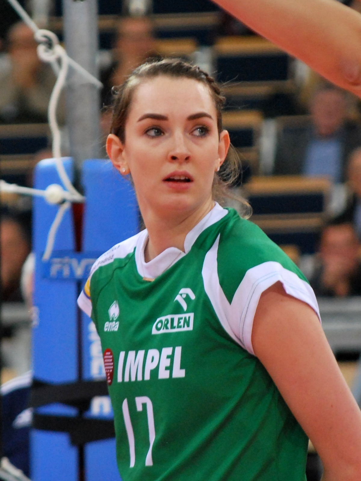 Megan Courtney, volleyball player from the United States